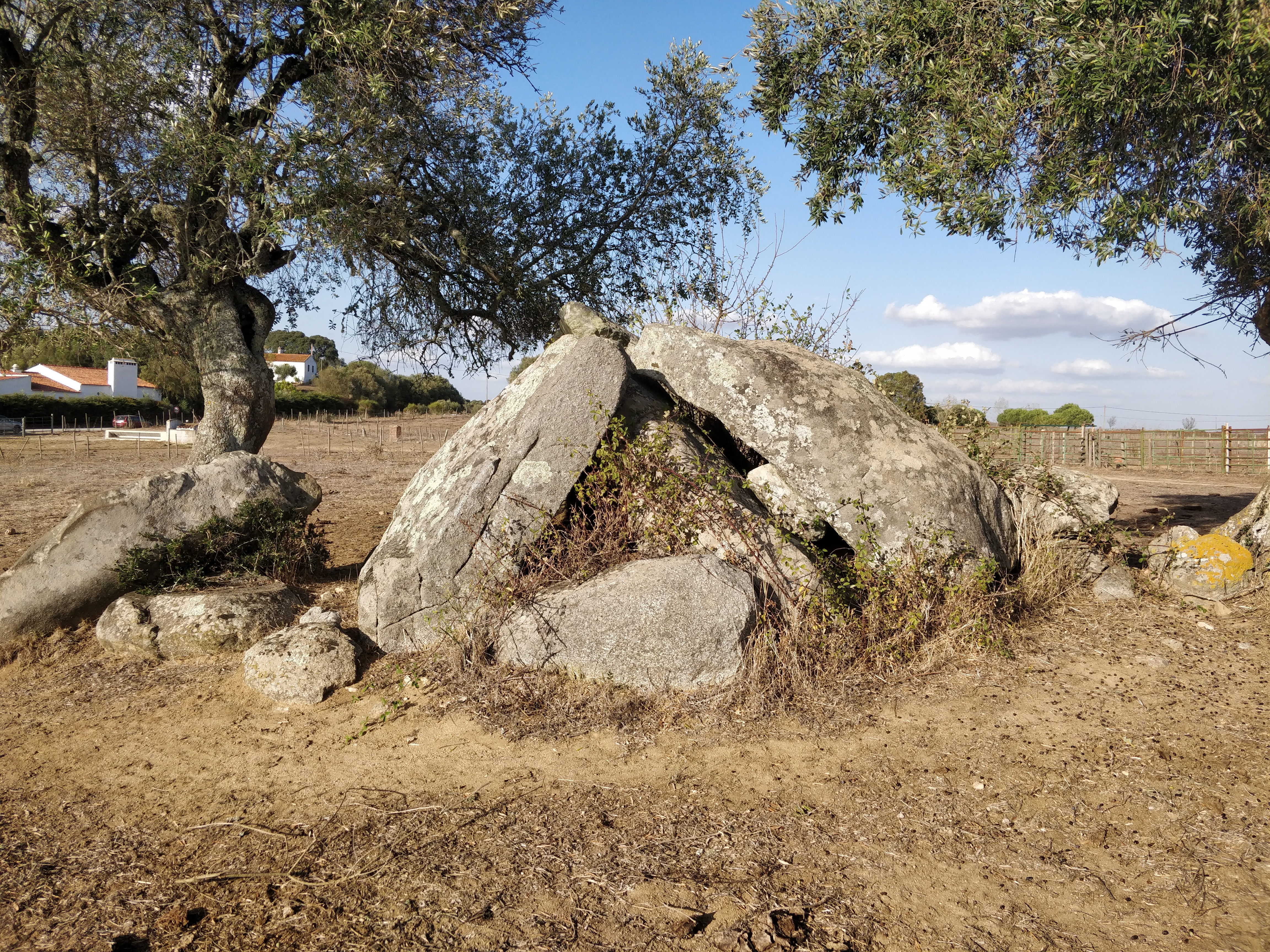 The Anta da Valeira 1 is one of two megalithic burial chambers or dolmens situated in a field at Valeira in the Evora District of Portugal